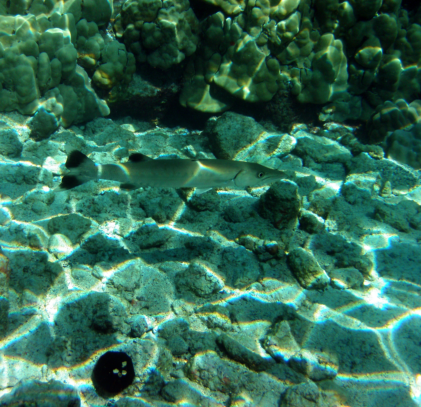 Great Barracuda corals, sea urchin and Caustic (optics) in Kona, Hawaii